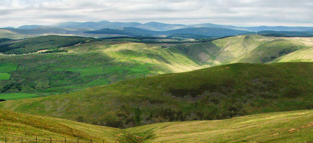 View of the Devil's Beef Tub looking west from Hartfell in the Moffat Hills, Southern Uplands, Scotland with Lowther Hills in the background